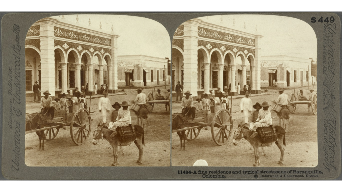 A fine residence and typical street scene of Baranquilla, Colombia, 1910.